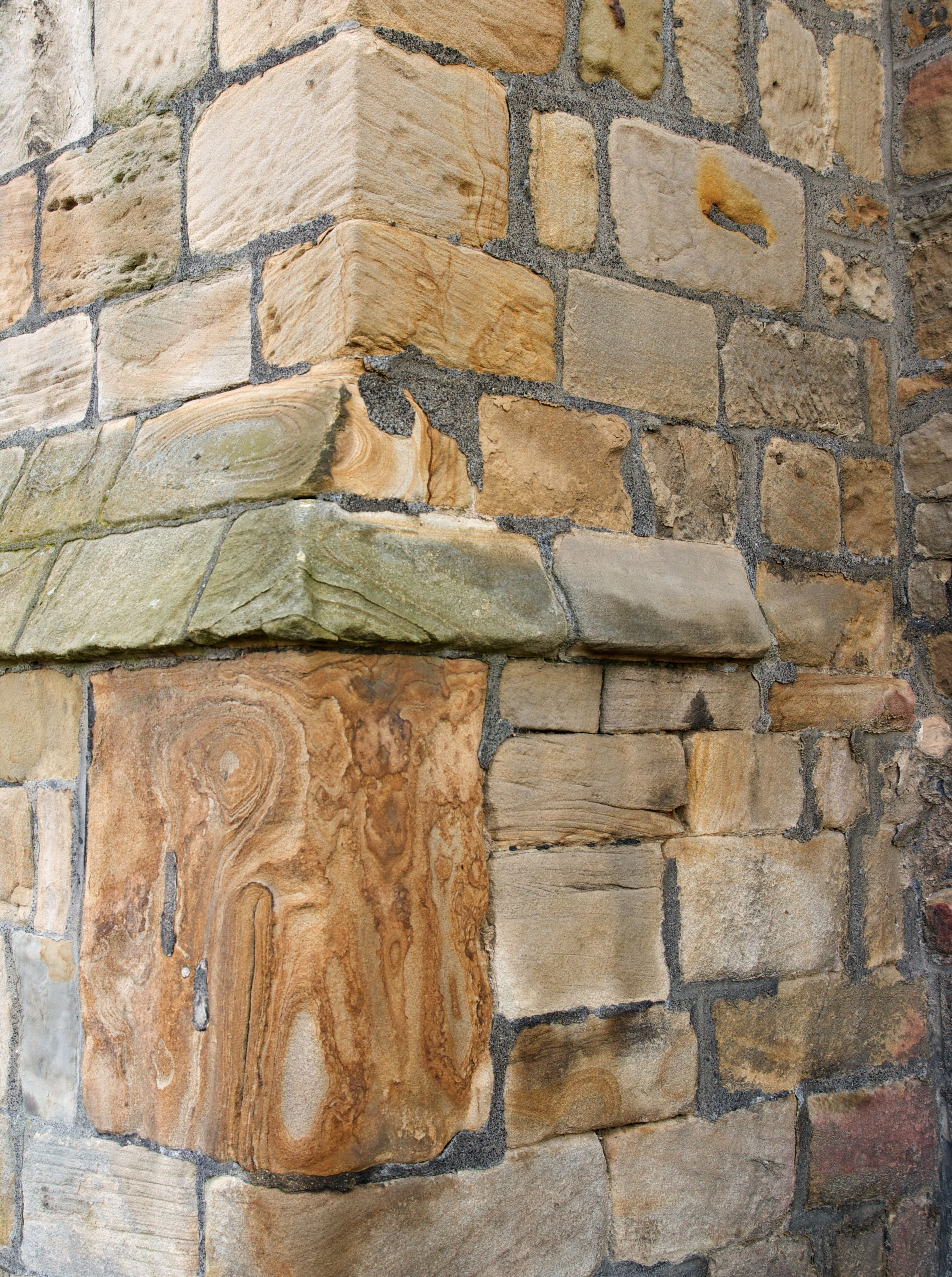 Stones with lewis holes on the front of St Mary and St Cuthbert parish church